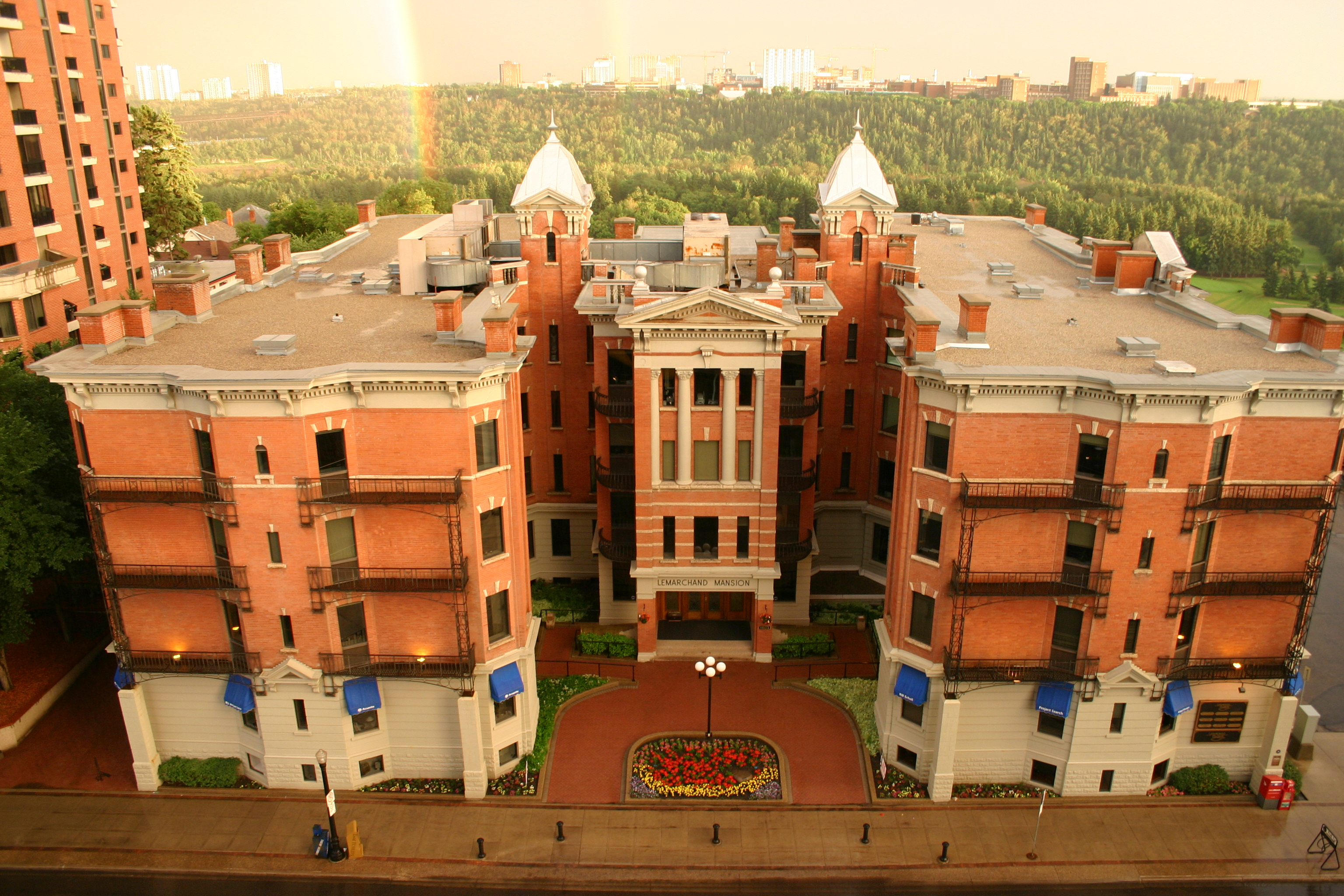 The LeMarchand mansion building in Edmonton, located at 11523 100 Ave. Flickr description: Lemarchand Mansion, just after the rain let up